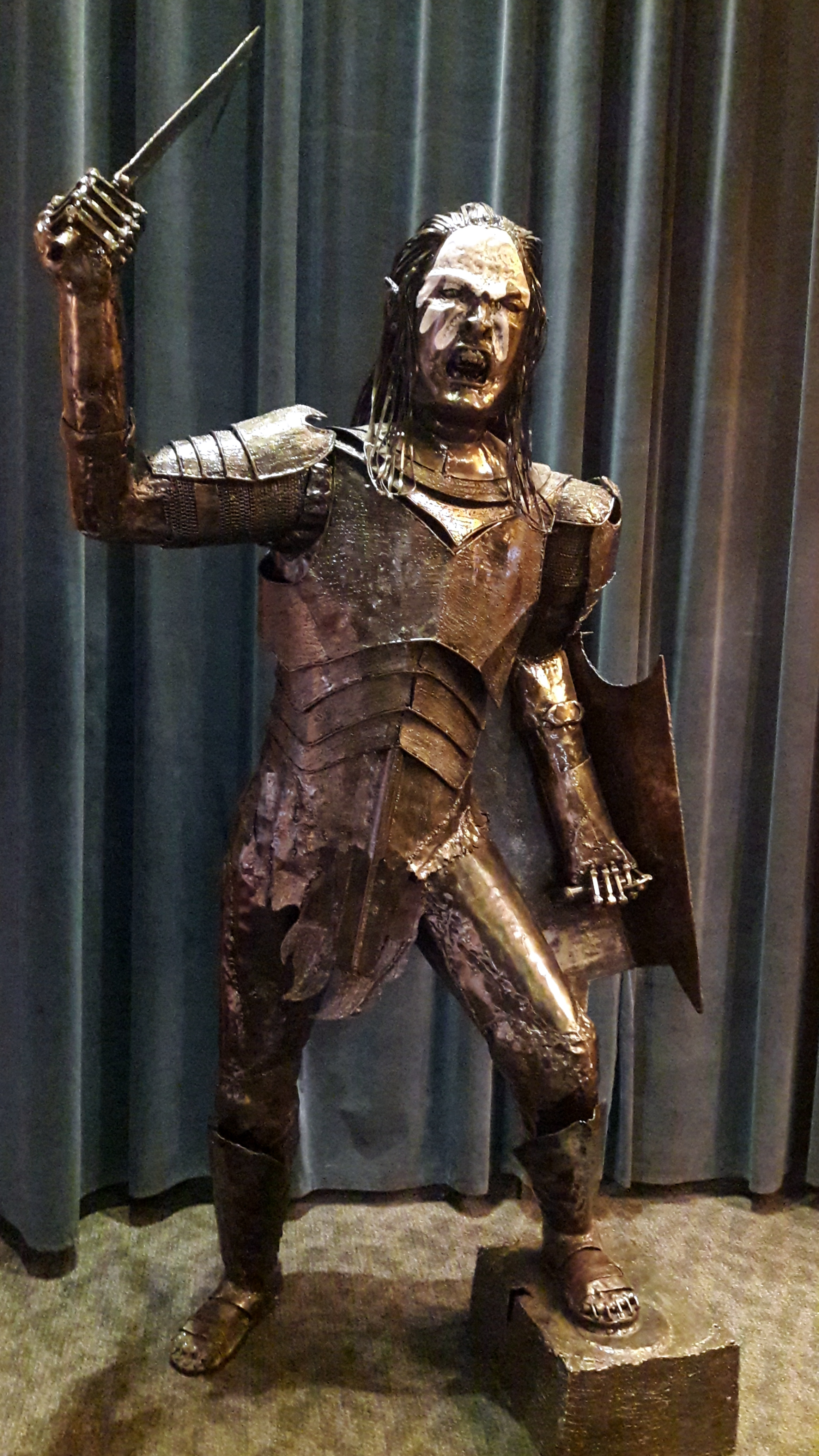 Middle-earth Orc